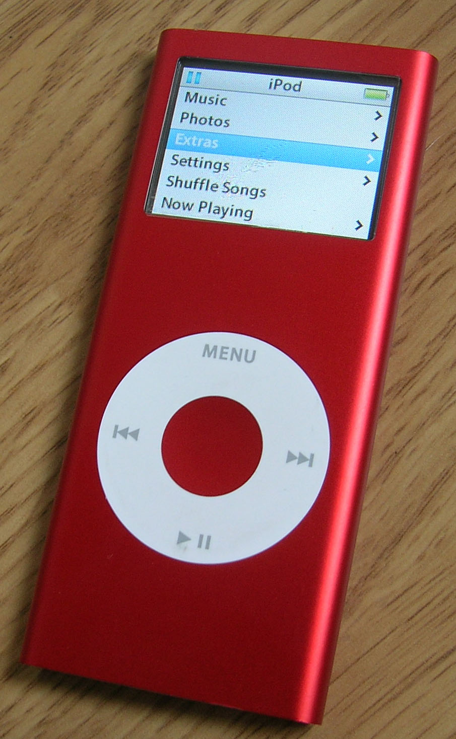 iPod Nano Red. Special Edition. Author: o_mores. the apple iPod product red is very slim and sleek although its competoters with the zenn i am getting one.